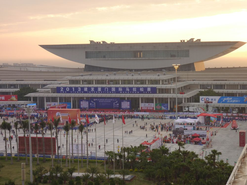 Xiamen International Marathon 2013, January 5th. The start and finish is at the Xiamen International Conference & Exhibition Center